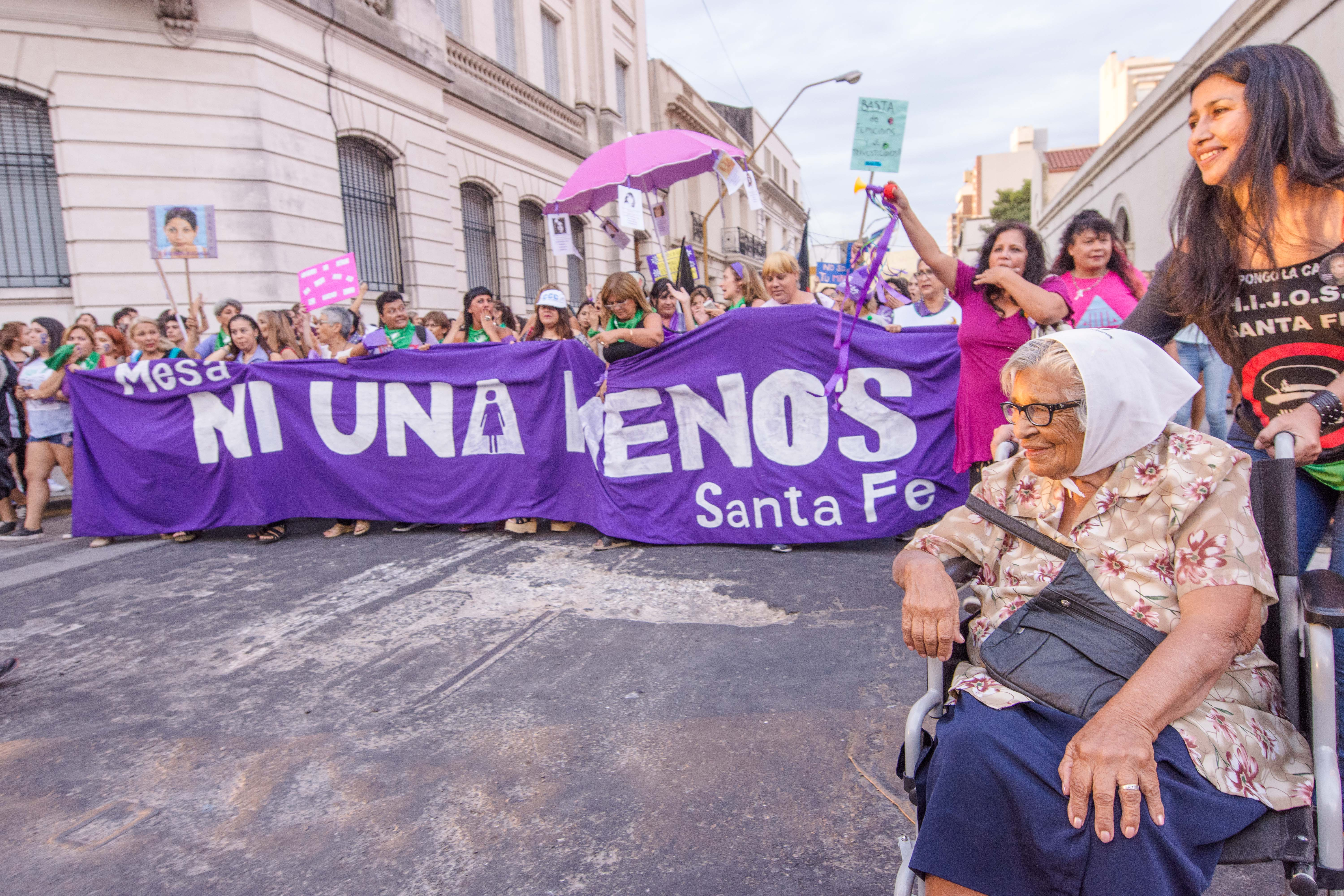 Segundo Paro Internacional de Mujeres - 8M - Santa Fe - Argentina Otilia Leoncia Acuña de Elías - Madres de Plaza de Mayo (Santa Fe)